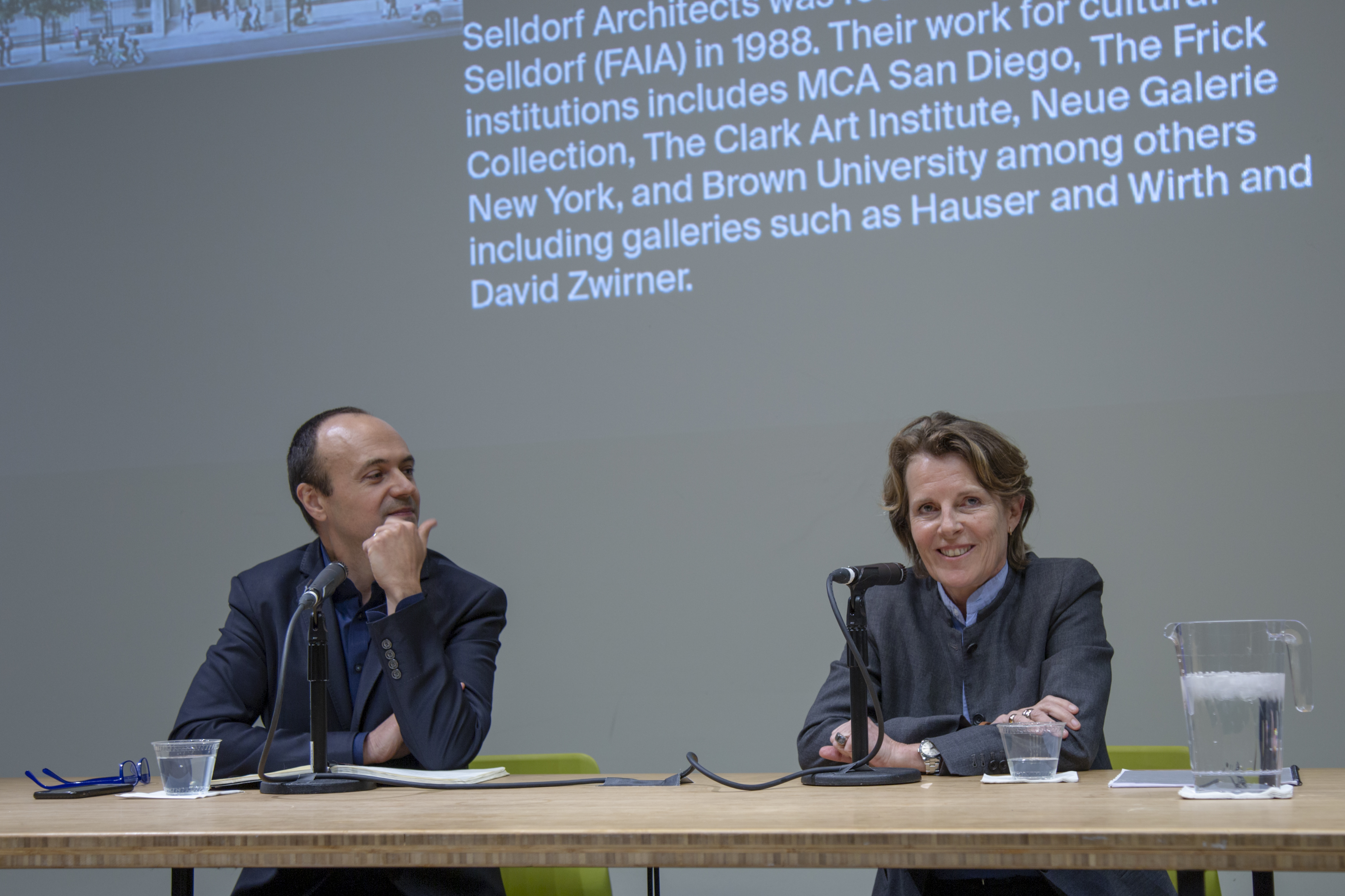 Annabelle Selldorf (FAIA) in 1988. Annabelle Selldorf is the Principal of Selldorf Architects a 70-person architectural design practice that she founded in New York City in 1988. The firm creates public and private spaces that manifest a clear and modern sensibility to enduring impact. Since its inception, the firm’s guiding principles have been deeply rooted in humanism. At every scale and for every condition, Selldorf Architects designs for the individual experience. As a result, its work is brought to life, and made complete, by those who use it.